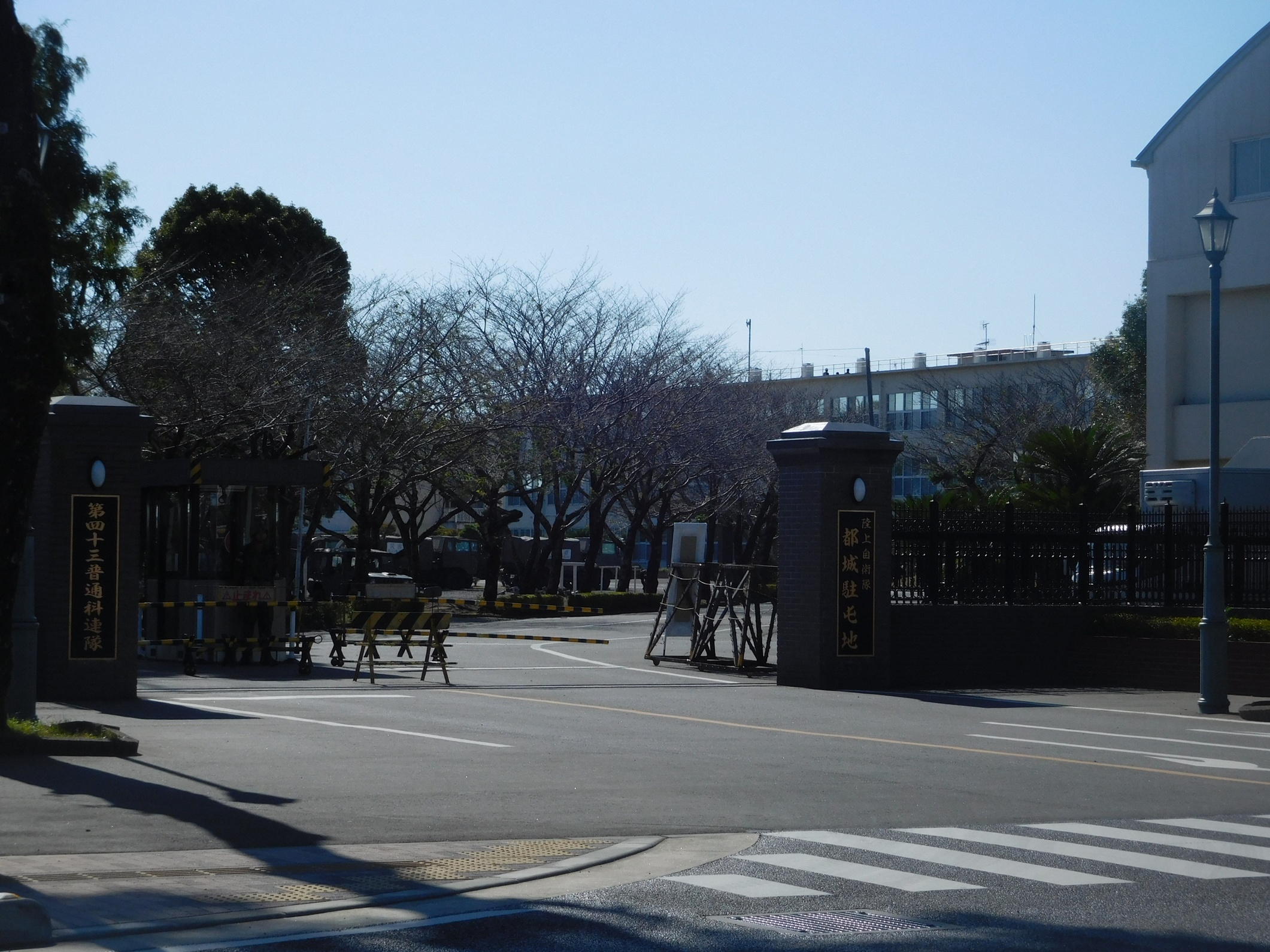 JGSDF Camp Miyakonojo (Miyakonojo City, Miyazaki Prefecture, Japan)